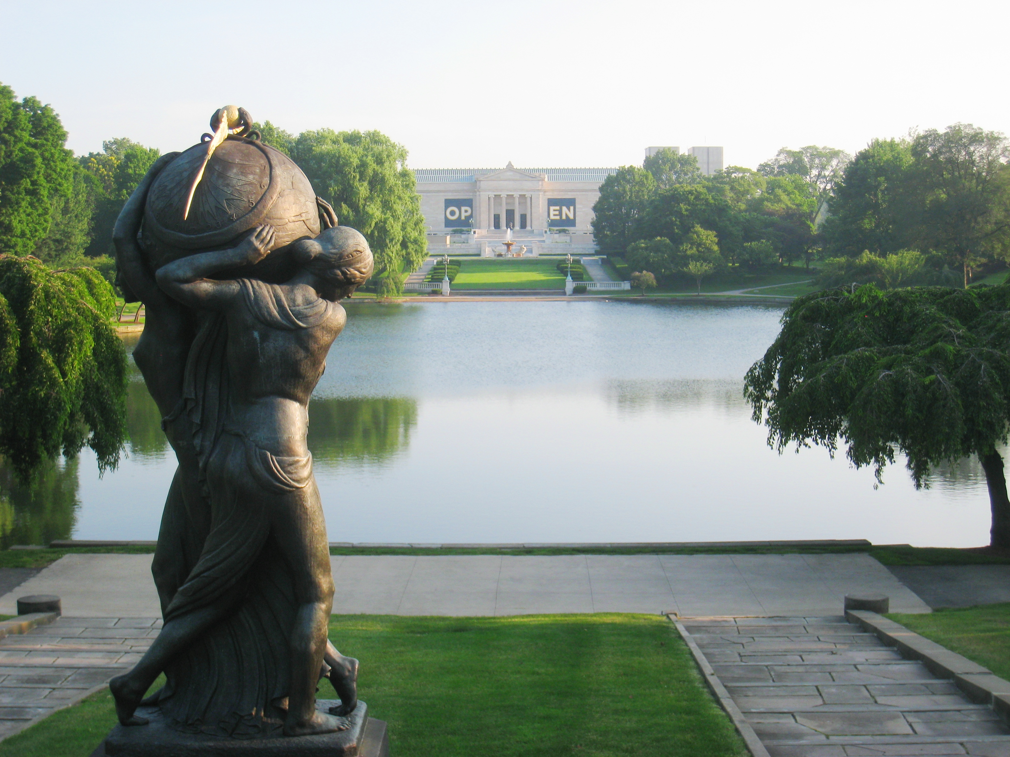 Lagoon with statue, Cleveland Museum of Art, Cleveland, Ohio, USA.